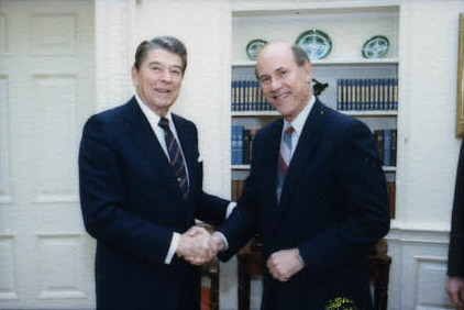 President Ronald Reagan, Bob Dole, John Eisenhower, Susan Eisenhower, Nancy Kassebaum, William Goodling, Pat Roberts, Frank Annunzio, Andrew Goodpastor, John Wickham, E. McCabe, Bradley Patterson, and G. Harkin (Not in all photos) (1-34) Signing Ceremony for S. 2789 Eisenhower Coin Bill